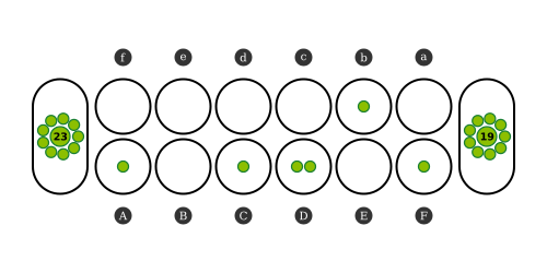 Oware problem